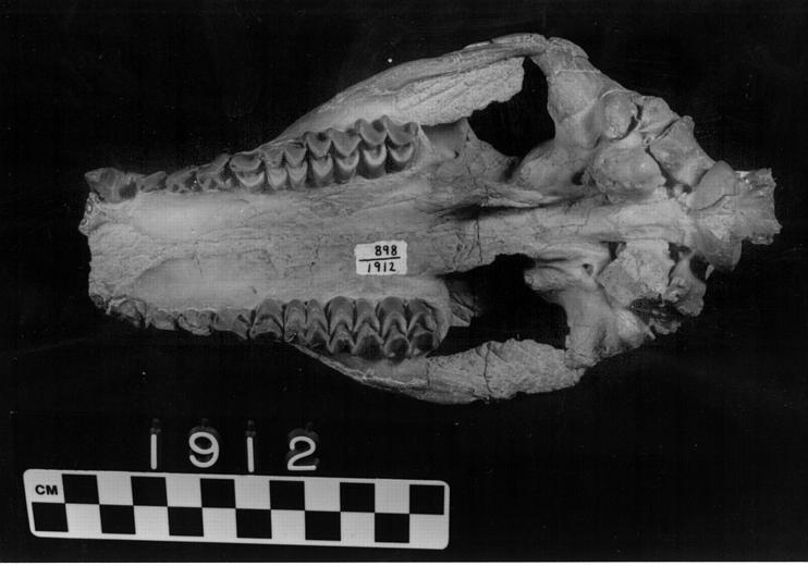 Eporeodon occidentalis skull, University of California Museum of Paleontology